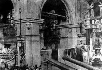 Synagogue in Nowy Żmigród